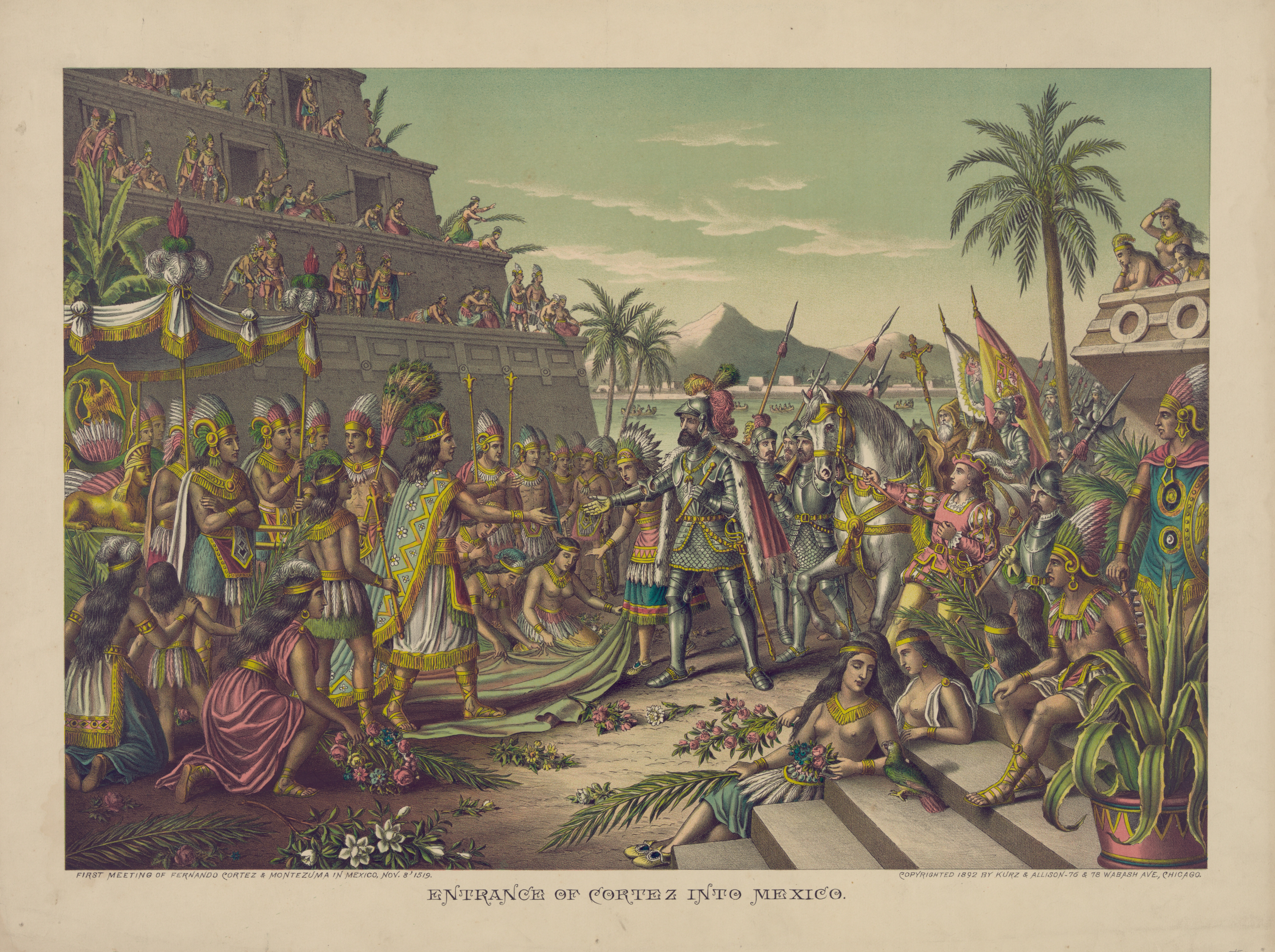 Cortez-montezuma-mexico-city